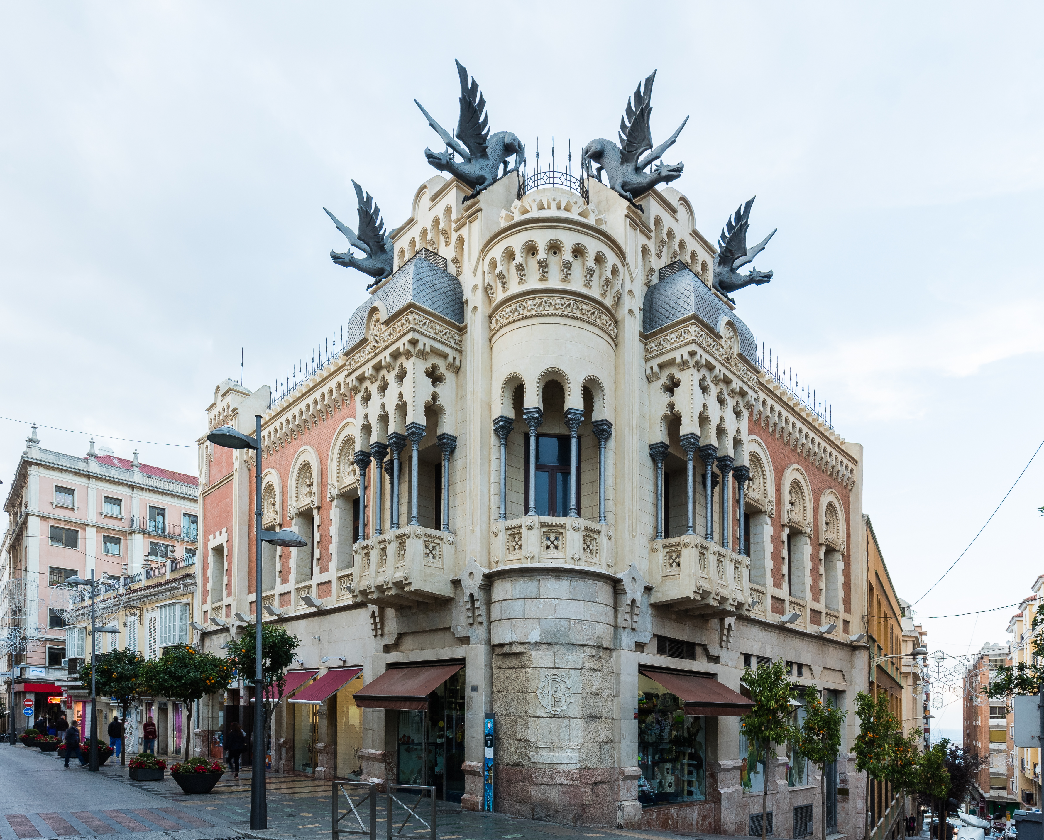 Casa de los Dragones ("House of Dragons"), Ceuta, Spain